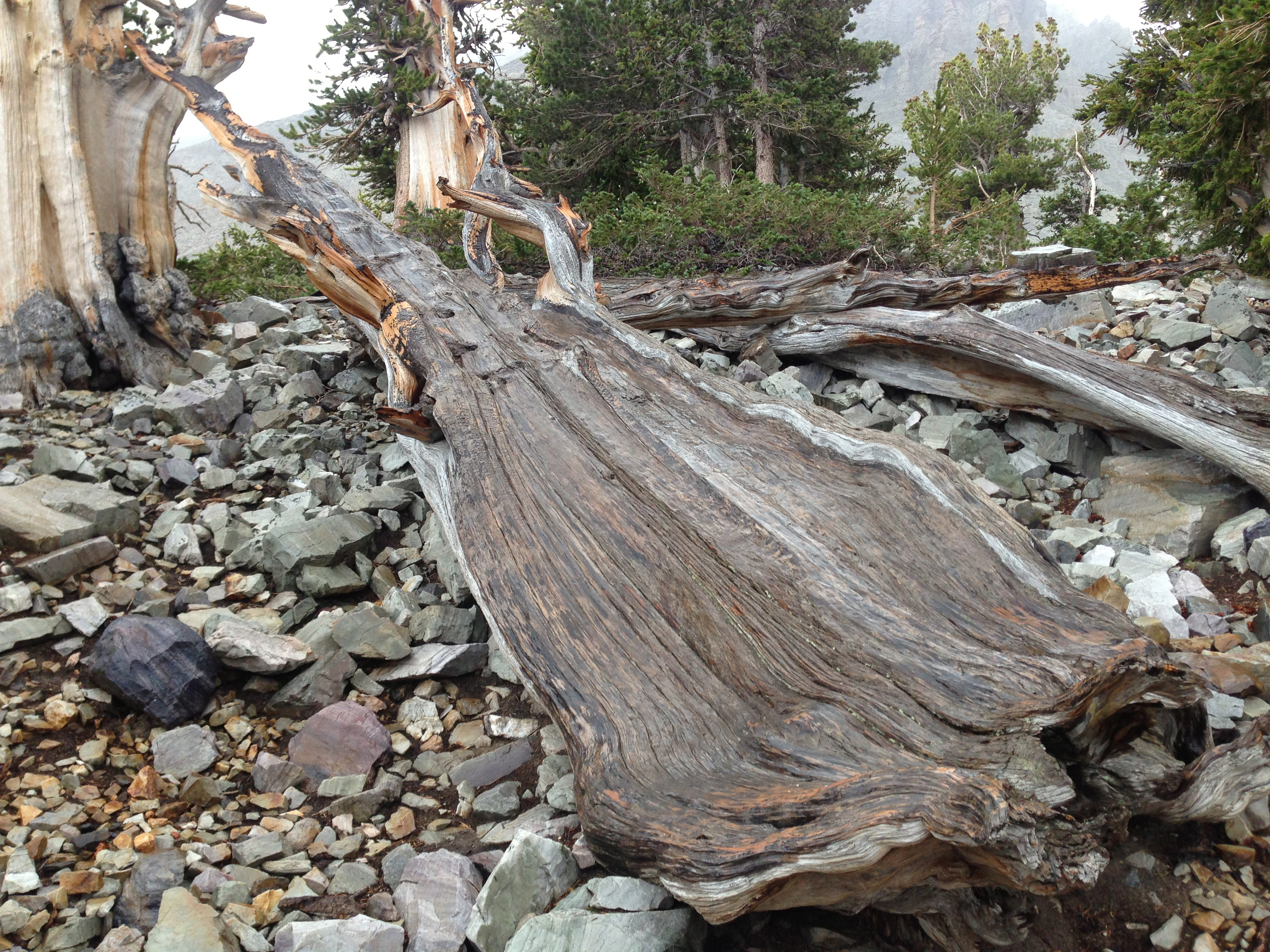 A Bristlecone Pine which lived for 3,000 years and has been dead for 300 years along the Bristlecone Trail in Great Basin National Park, Nevada